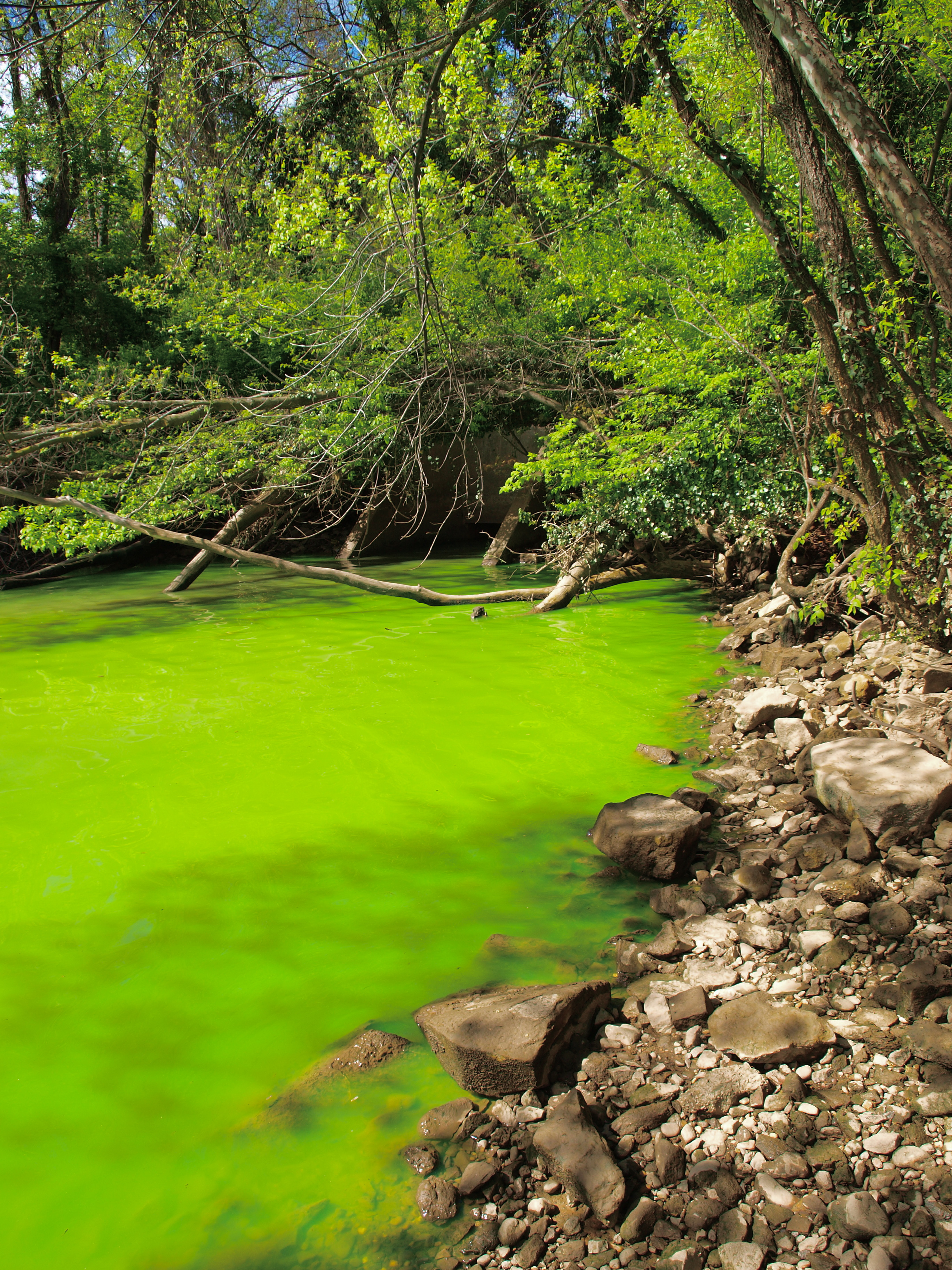 Eutrophication at a waste water outlet in the Potomac River, Washington, D.C.